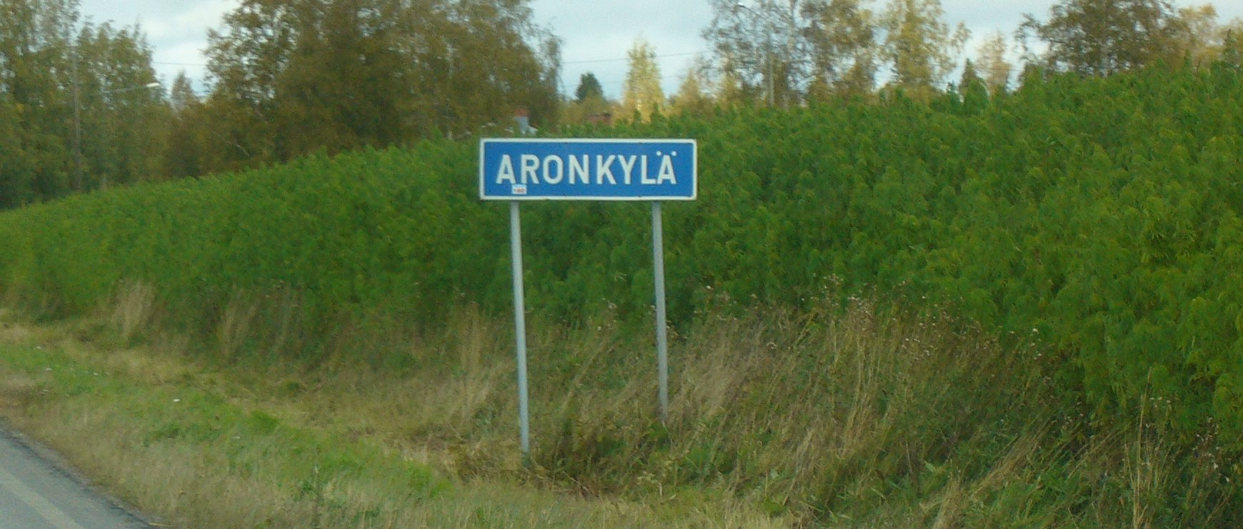 Village of Aronkylä, Kauhajoki, Finland.